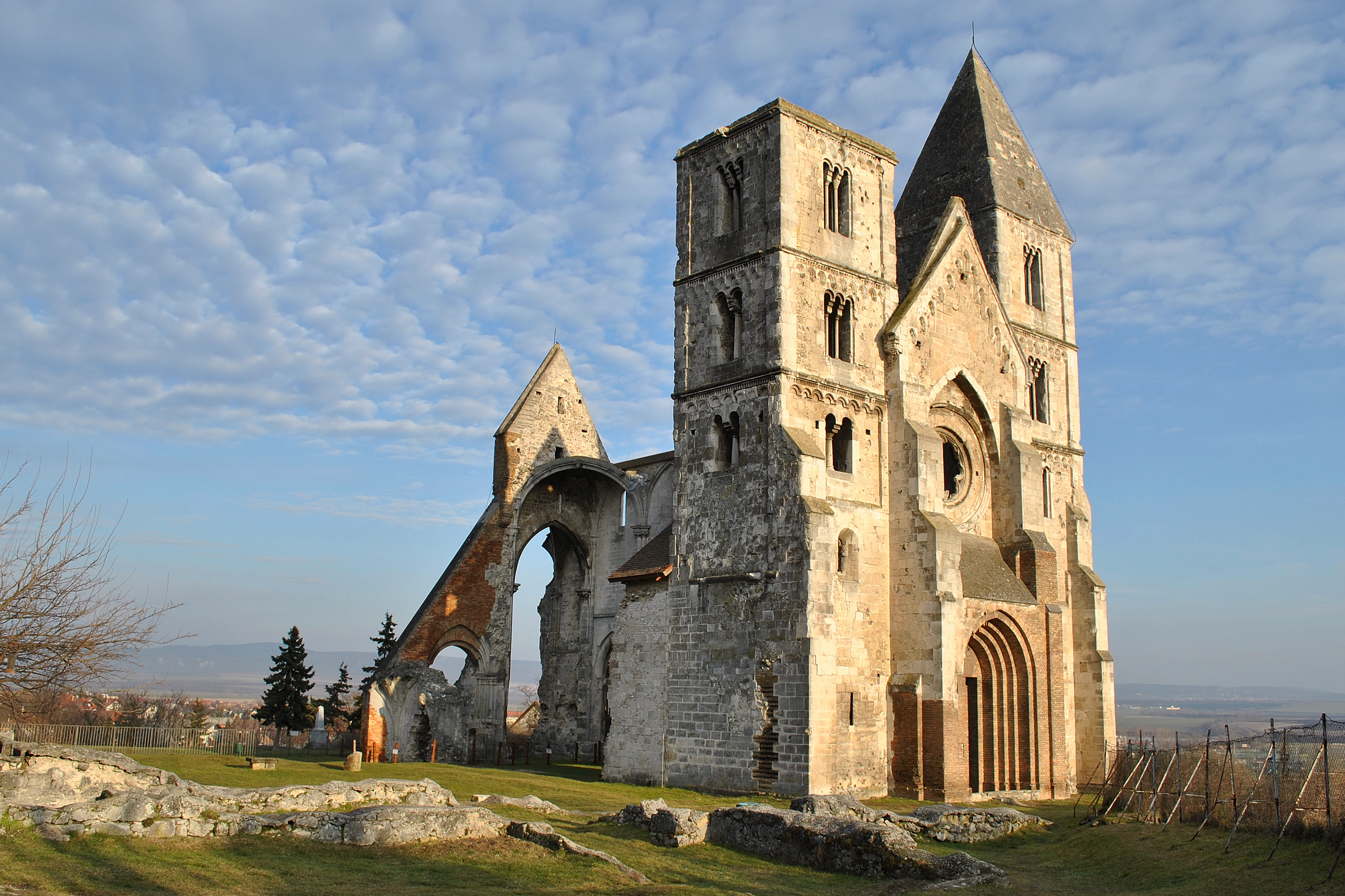 Zsámbék, Hungary: Ruins of Premonstratensian monastery church, in romanesque style, early 13th century.